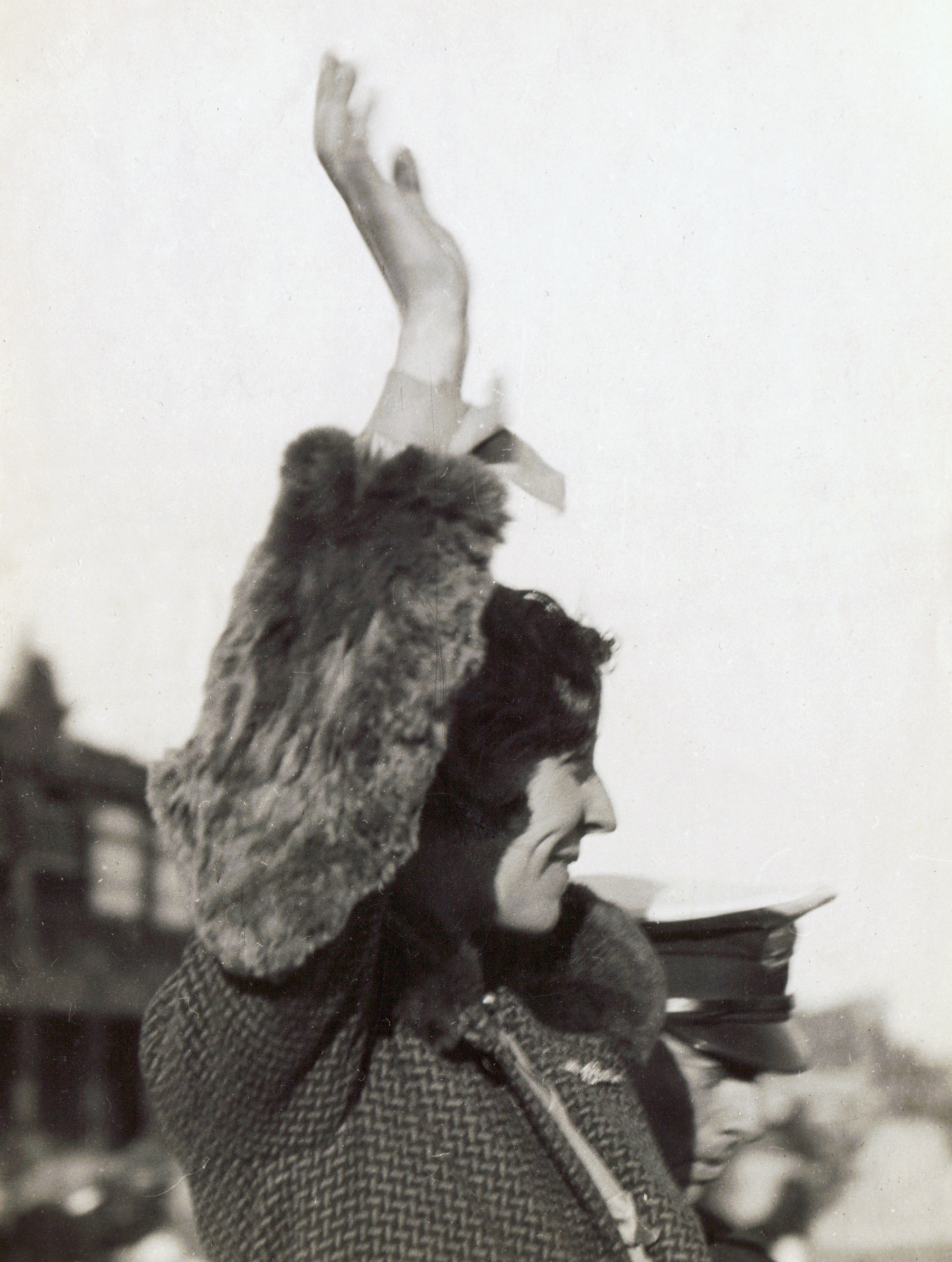 Amy Johnson, aviatrix. Kalgoorlie, Western Australia.